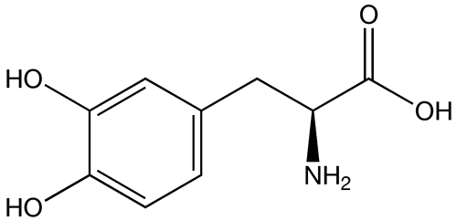 Structure of levodopa. Created with ChemDraw.